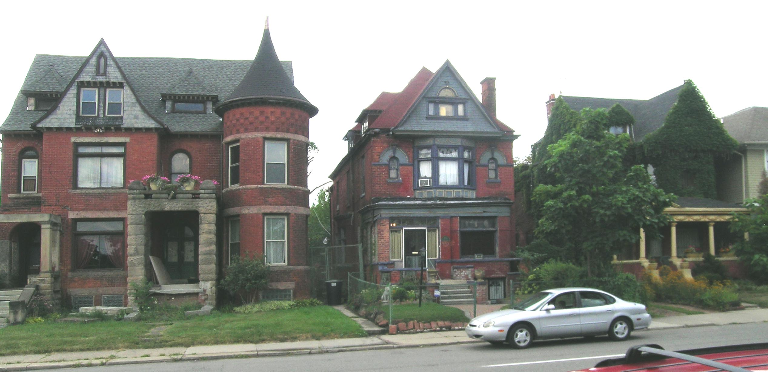 Street scene in Woodbridge, on Trumbull Ave between Willis and Selden, Detroit.